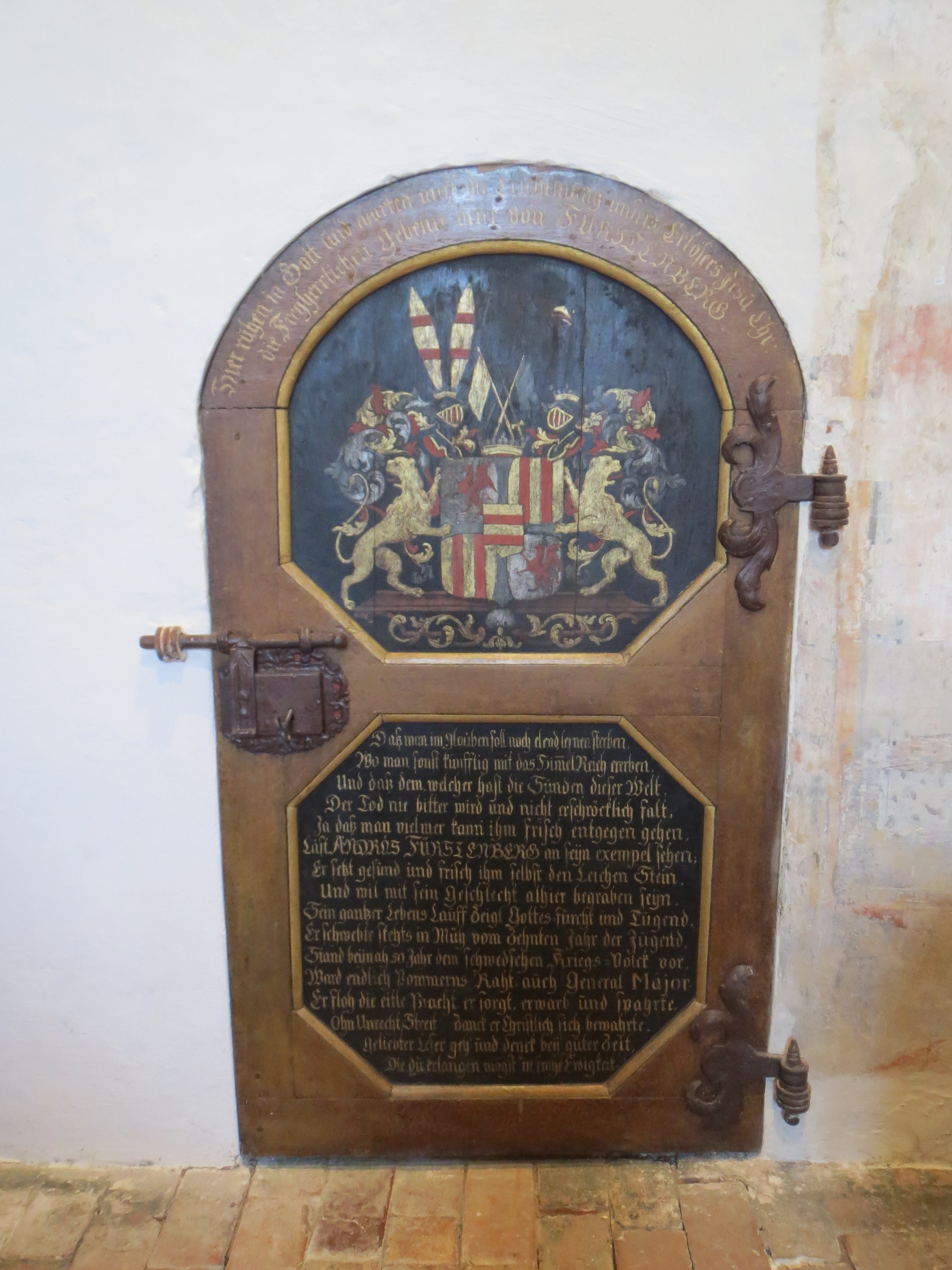 Church in Groß Bünzow